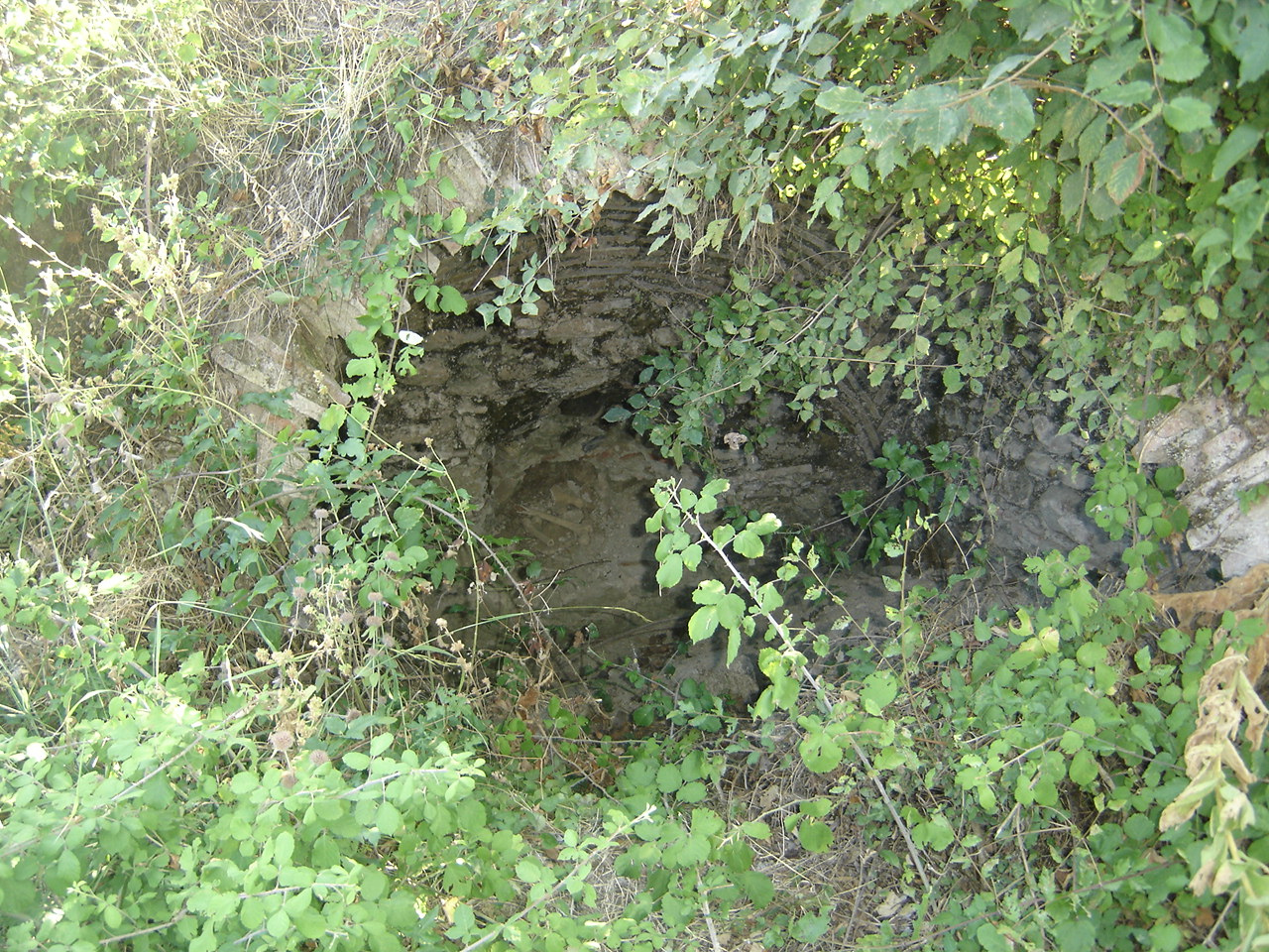 A tomb with human bones found at Meliadi but date unspecified yet.